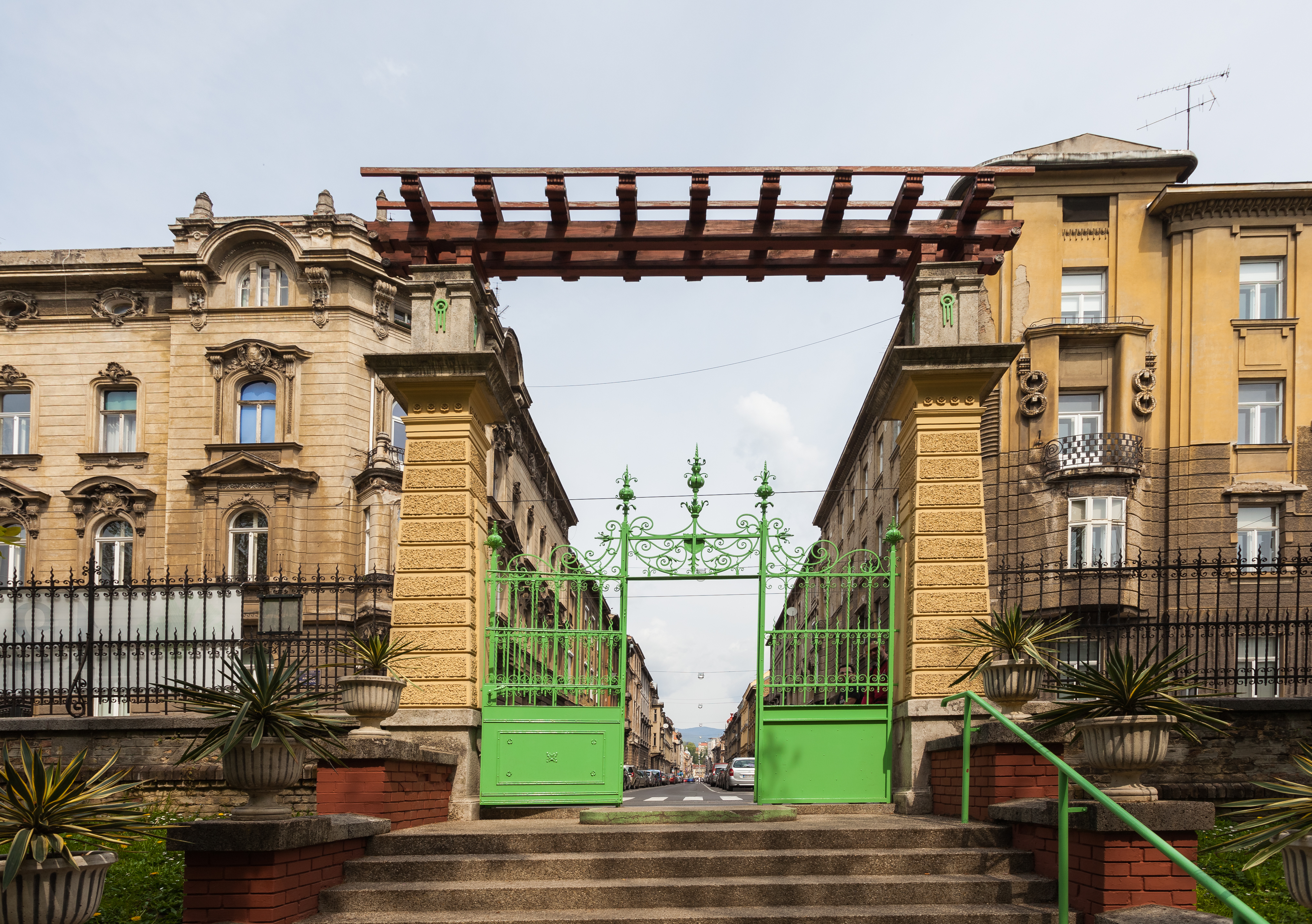 Botanical Garden, Zagreb, Croatia